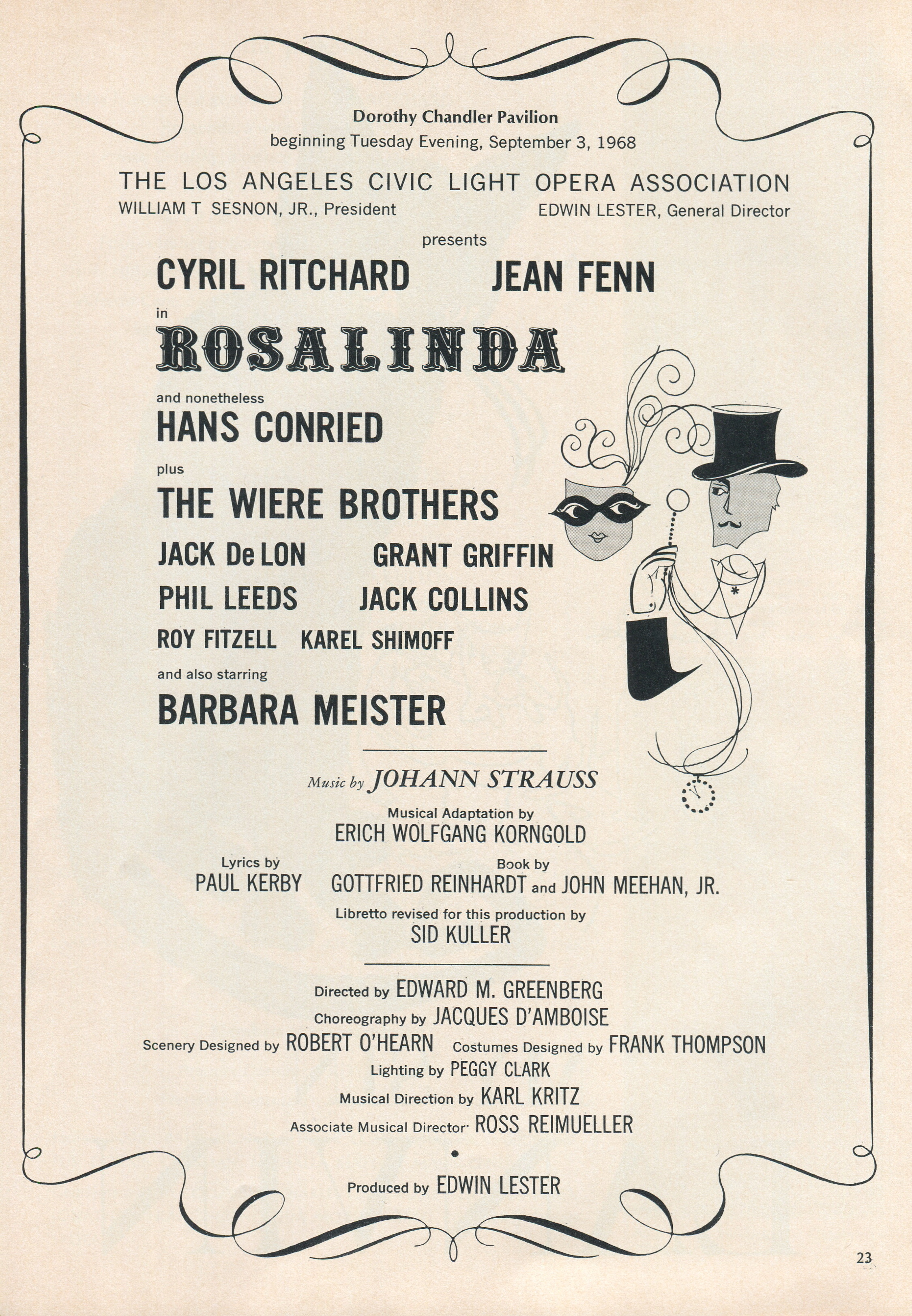 Performing Arts. The Los Angeles Civic Light Opera, 31st Annual Season (1968-69). The Wiere Brothers as Frish, Frosh, and Frush.